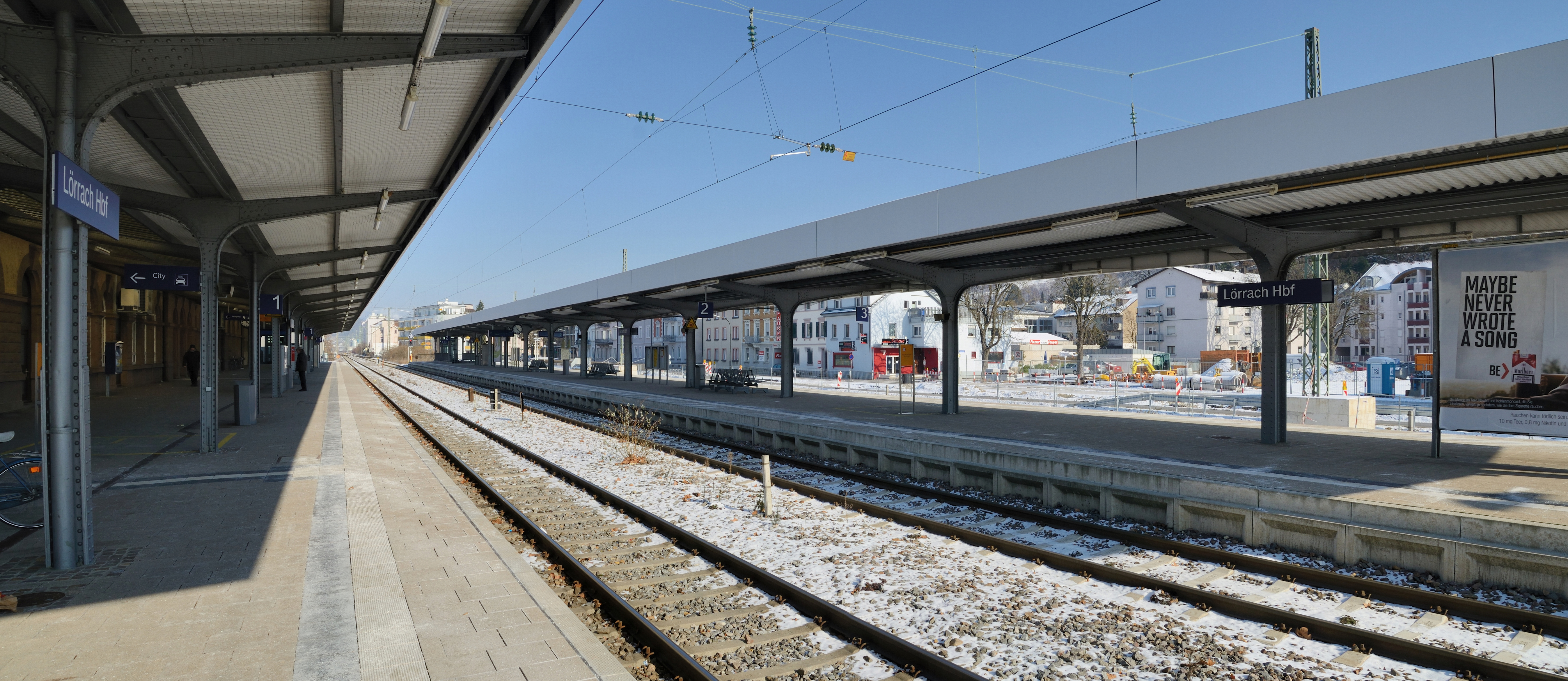 Lörrach: Central station